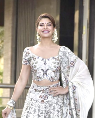 arriving for Sonam Kapoor’s Sangeet at Signature Island in BKC